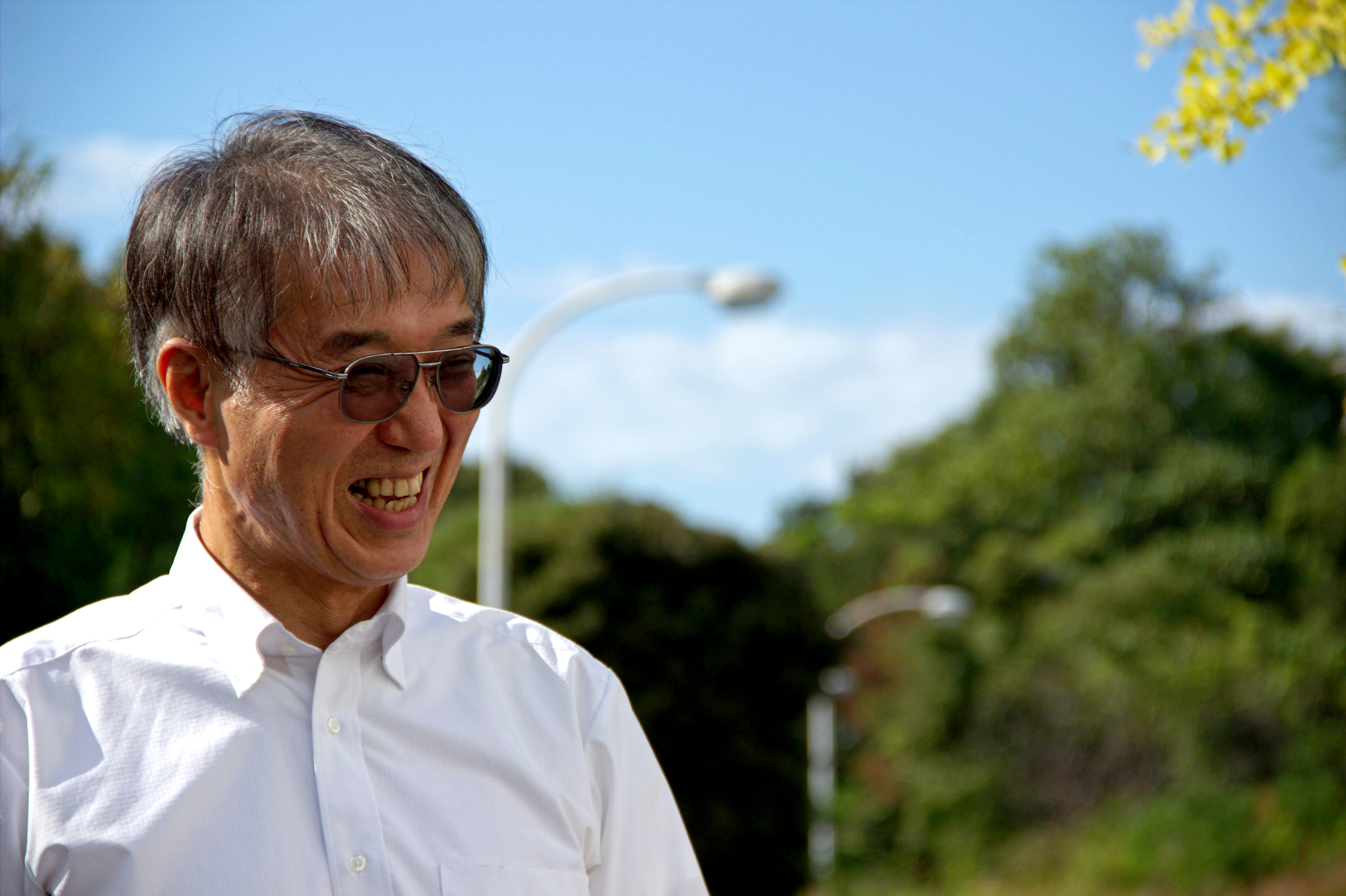 Hiroaki Koide